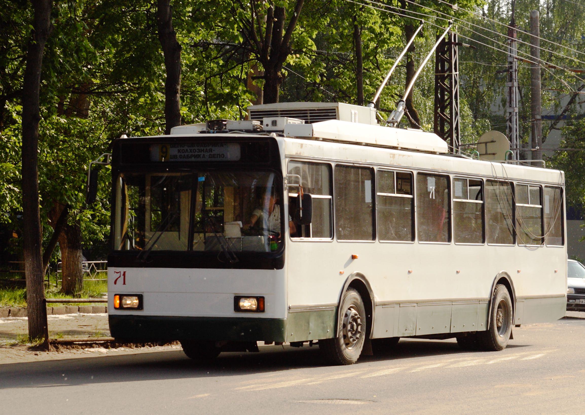 VMZ-5298.00 (VMZ-375) trolleybus # 71 in Kovrov.